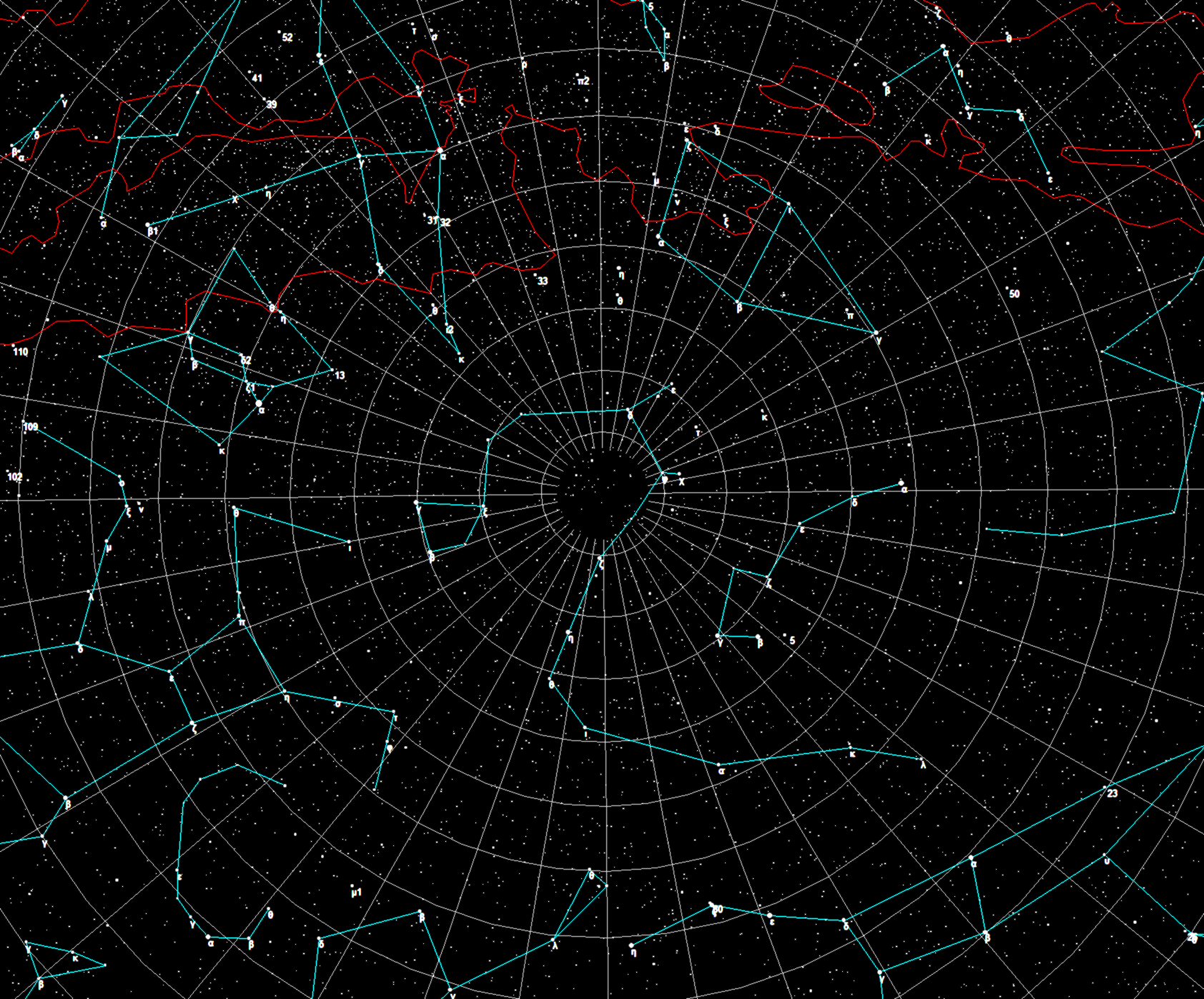 Star chart of north ecliptic pole